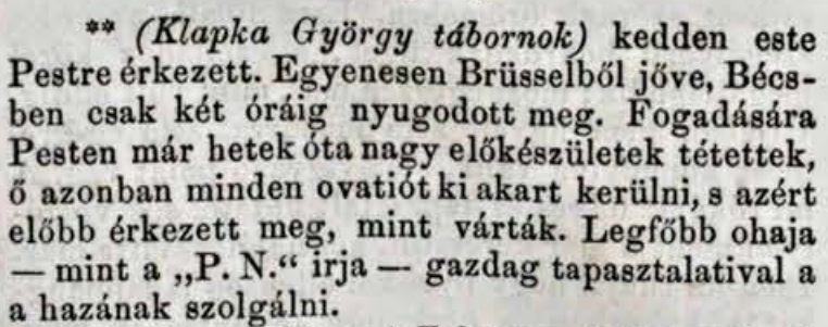 Information on Klapka György's homecoming